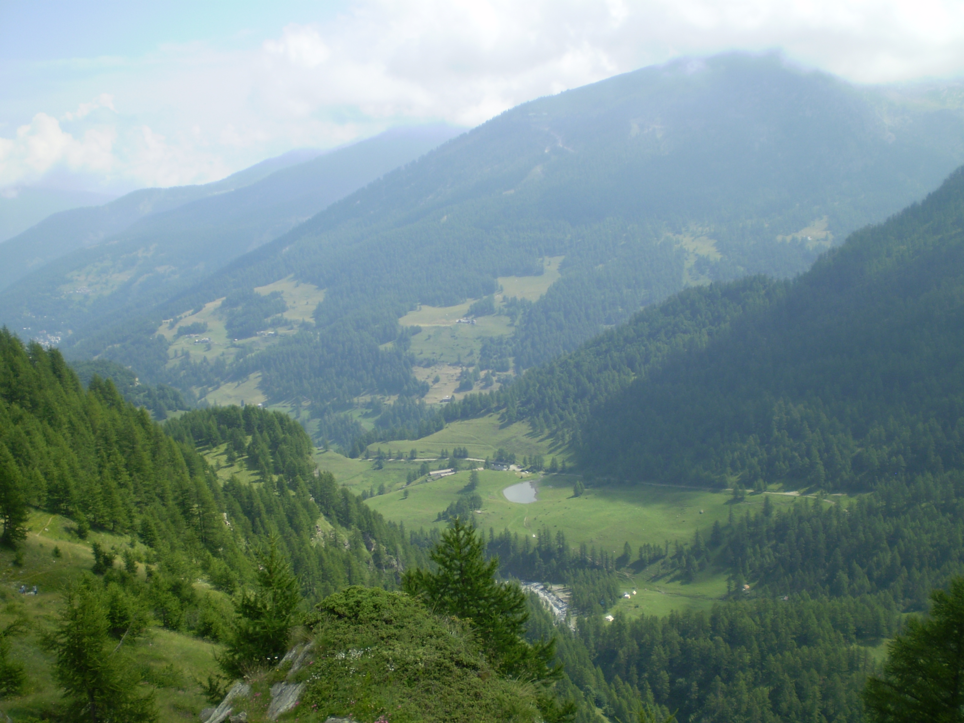 Valle Germanasca seen from Roccias